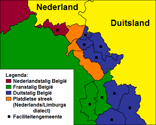 Low Dietsch dialects. Low Dietsch (canton of Eupen) French and Walloon (Province of Liège) Middle Franconian (cantons of Eupen and Saint Vith) Dutch and Limburgish (Belgian Limburg) Municipalities with language facilities